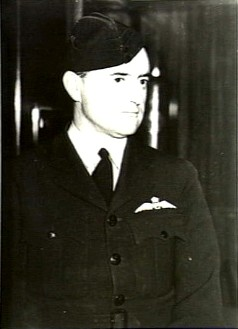 1941-06-12. RAAF EMBARKATION. WING-COMMANDER MURDOCH, WHO ACCOMPANIED THE CONTINGENTS.